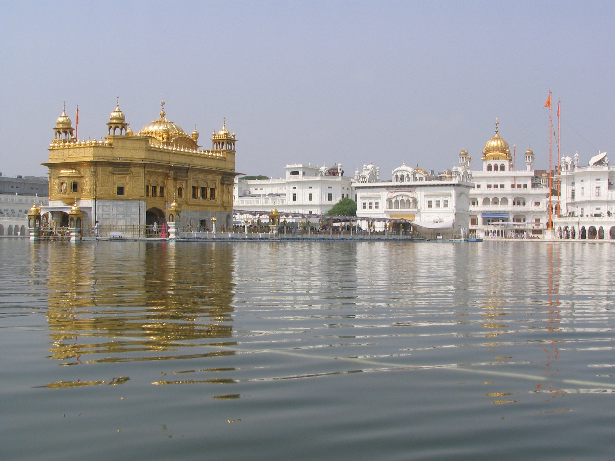 Golden Temple (main building) Complex with Akal Takht Sahib.